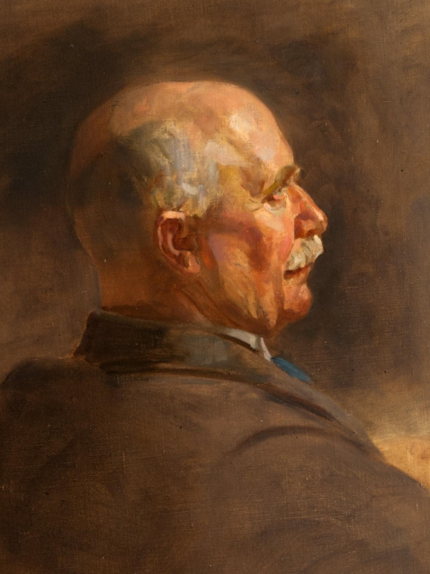 William Ferguson Massey (1856–1925). Prime Minister of New Zealand. Study for portrait in Statesmen of the Great War.